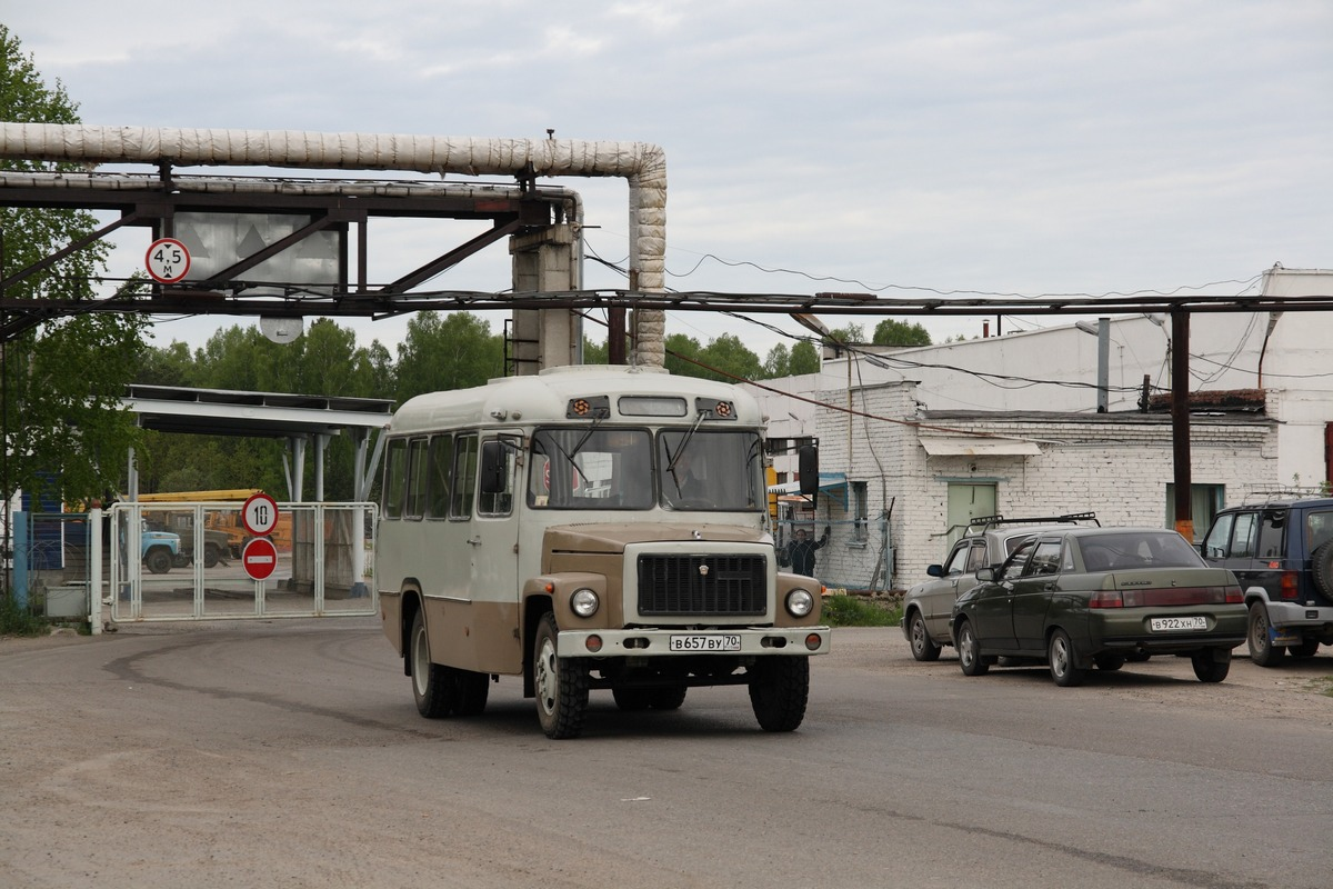 GAZ bus near Tomsk.